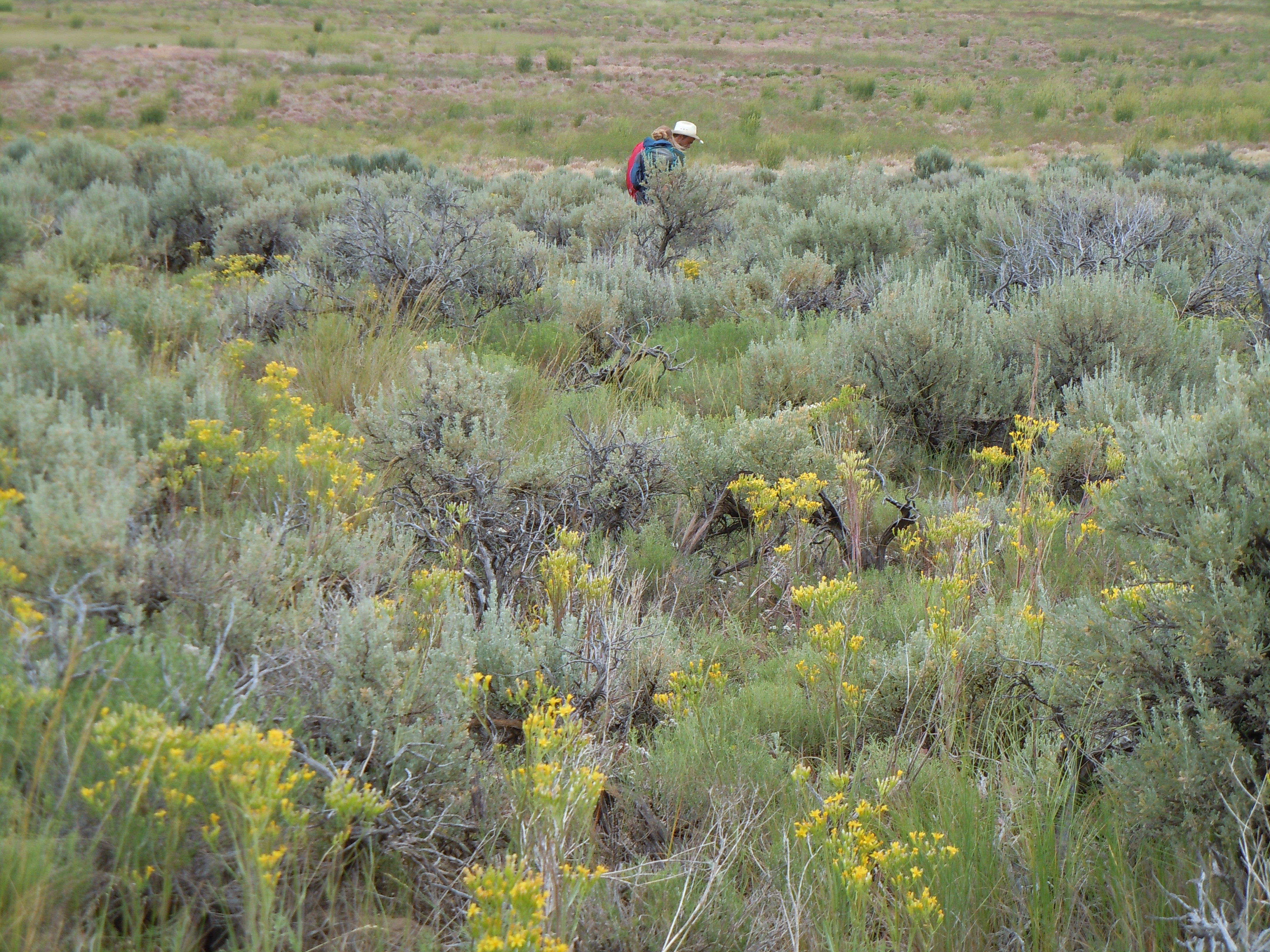 The days immediately before the July 2010 fire, the vegetation was still green and lush given that 2010 was relatively wet and cool. This patch of Artemisia was spared previous fires in this region.